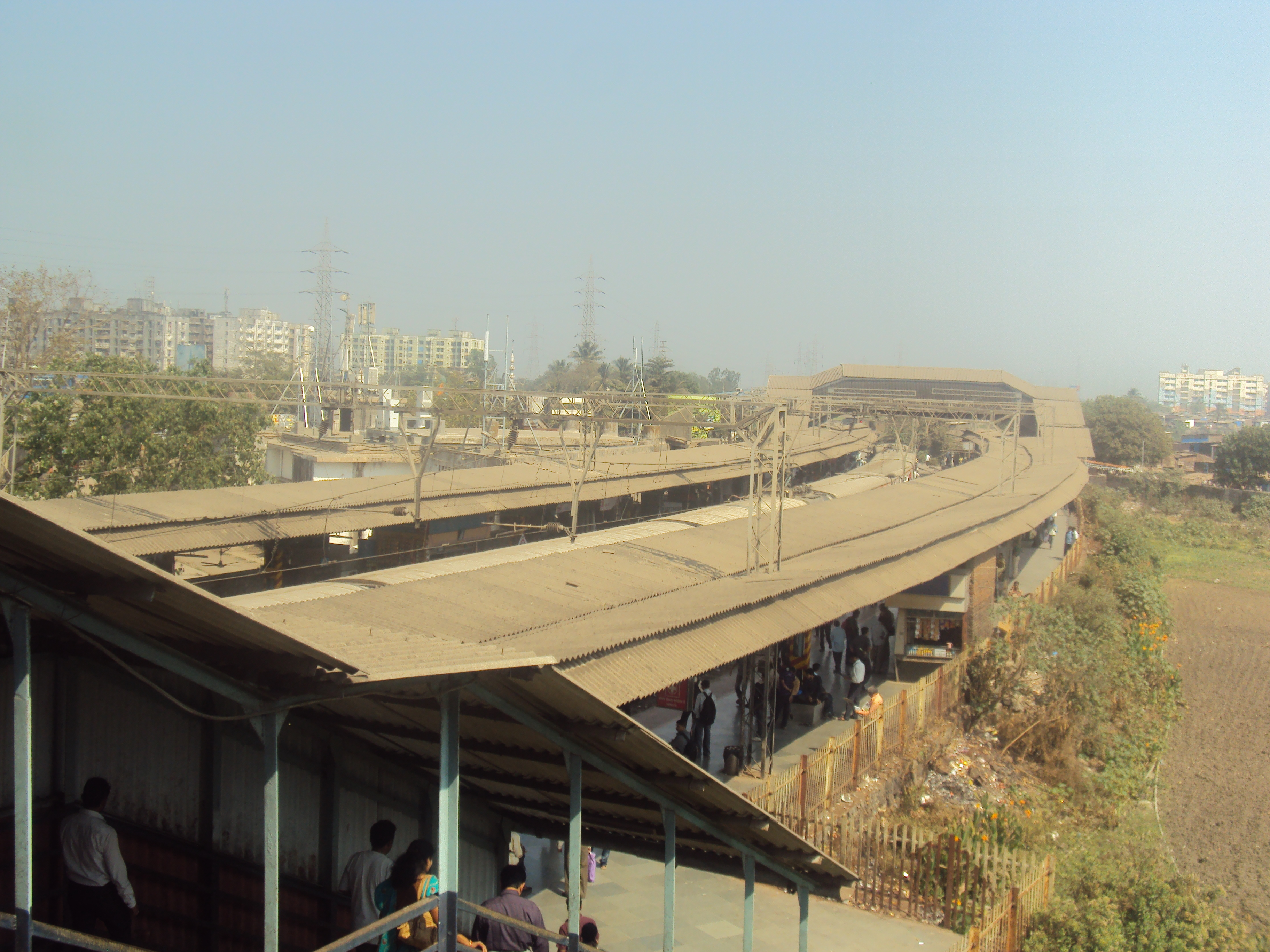 Mankhurd Railway Station